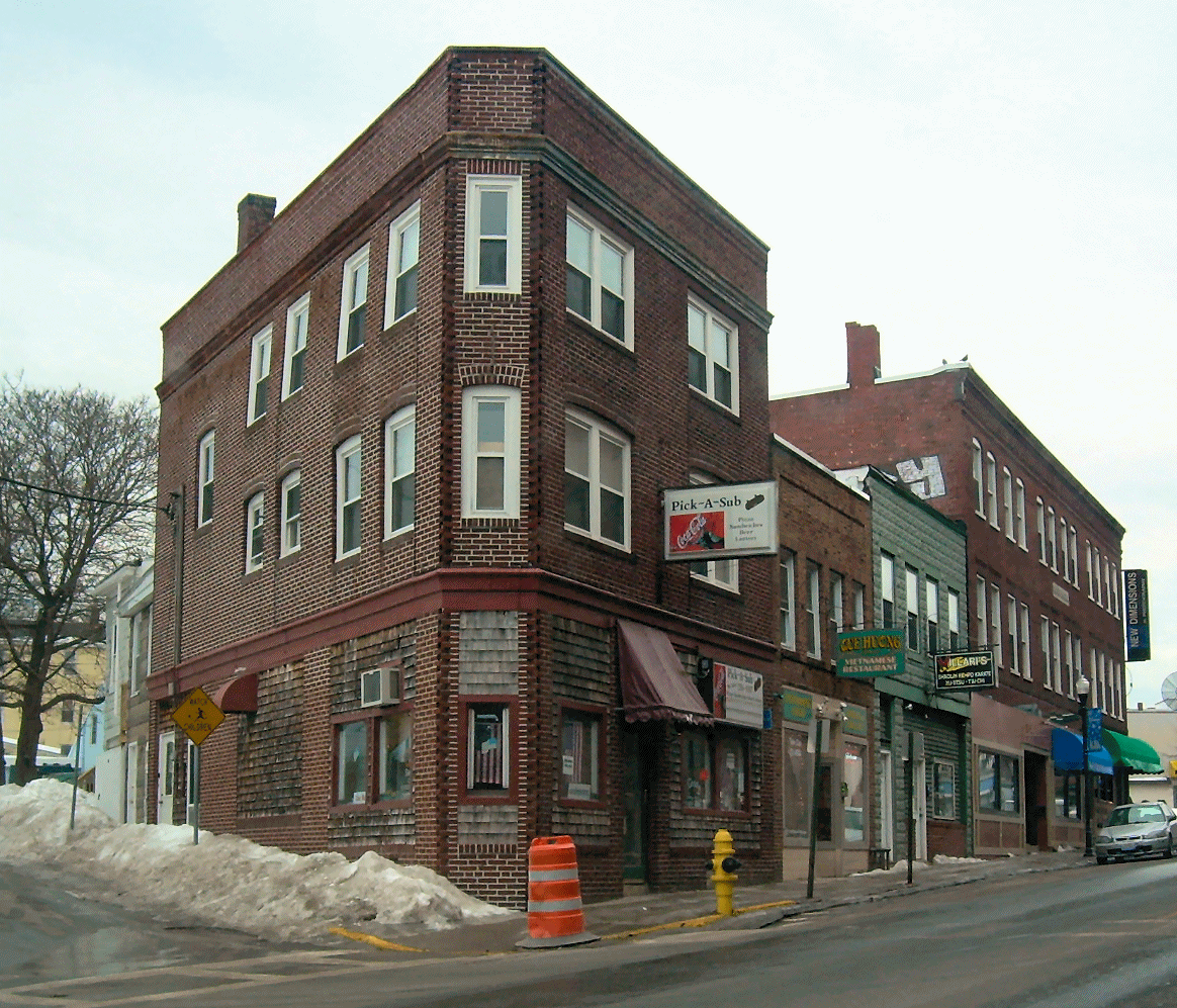 Part of Main St. in Biddeford, ME